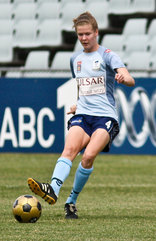 Alesha Clifford playing for Sydney FC in the W-League against the Newcastle Jets.